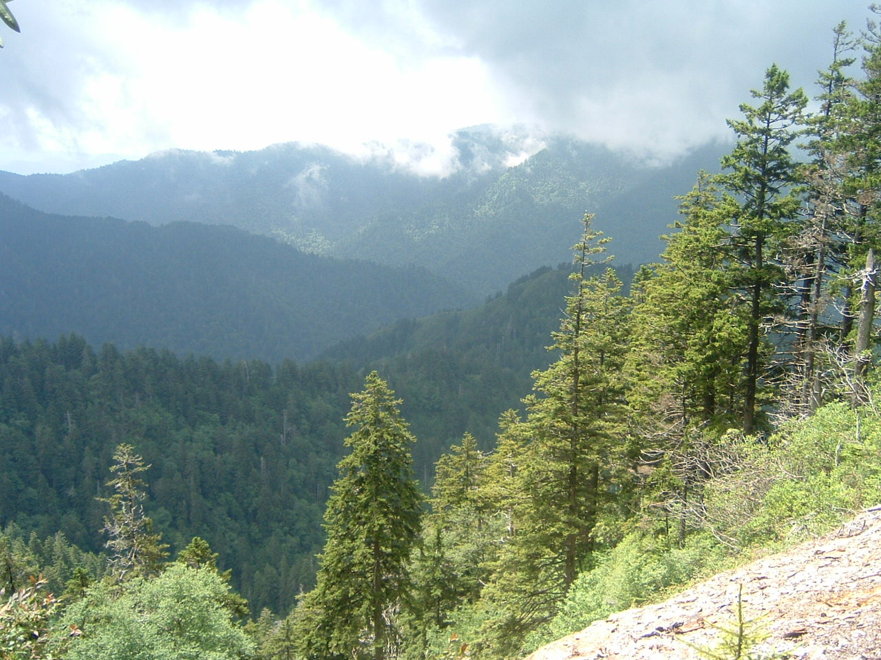 The Alum Cave Bluff Trail provides numerous overlooks of the surrounding mountains.